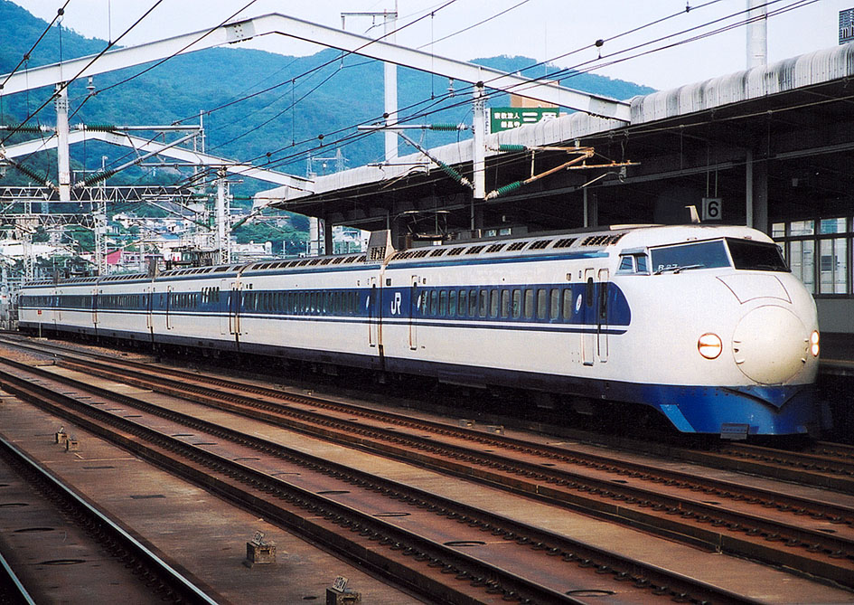 JR West 0 series shinkansen 6-car set R27 on a Kodama service